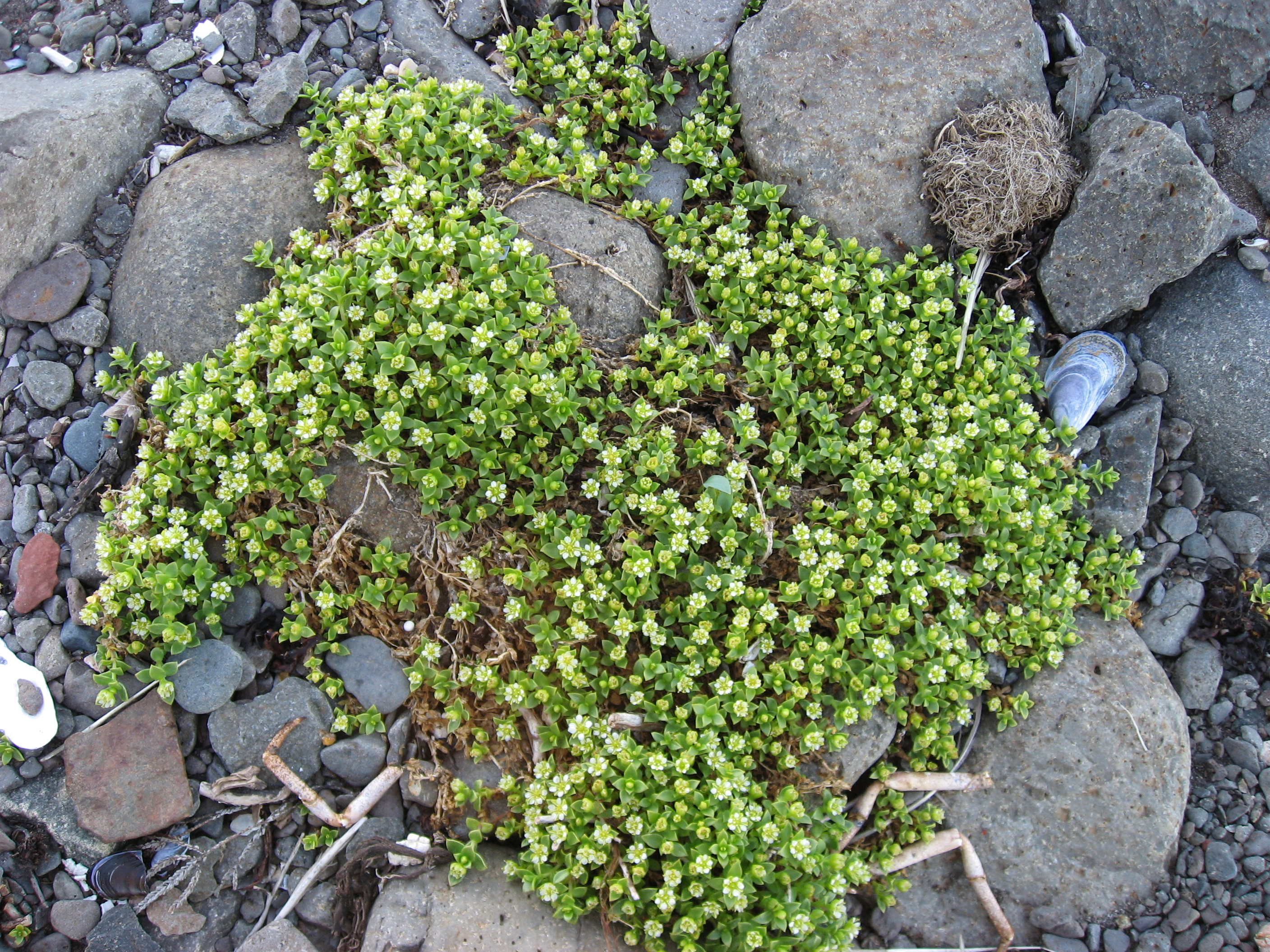 Seaside Sandplant (Honckenya peploides) photographed near Upernavik Kujalleq, Greenland near individuals of Mertensia maritima.